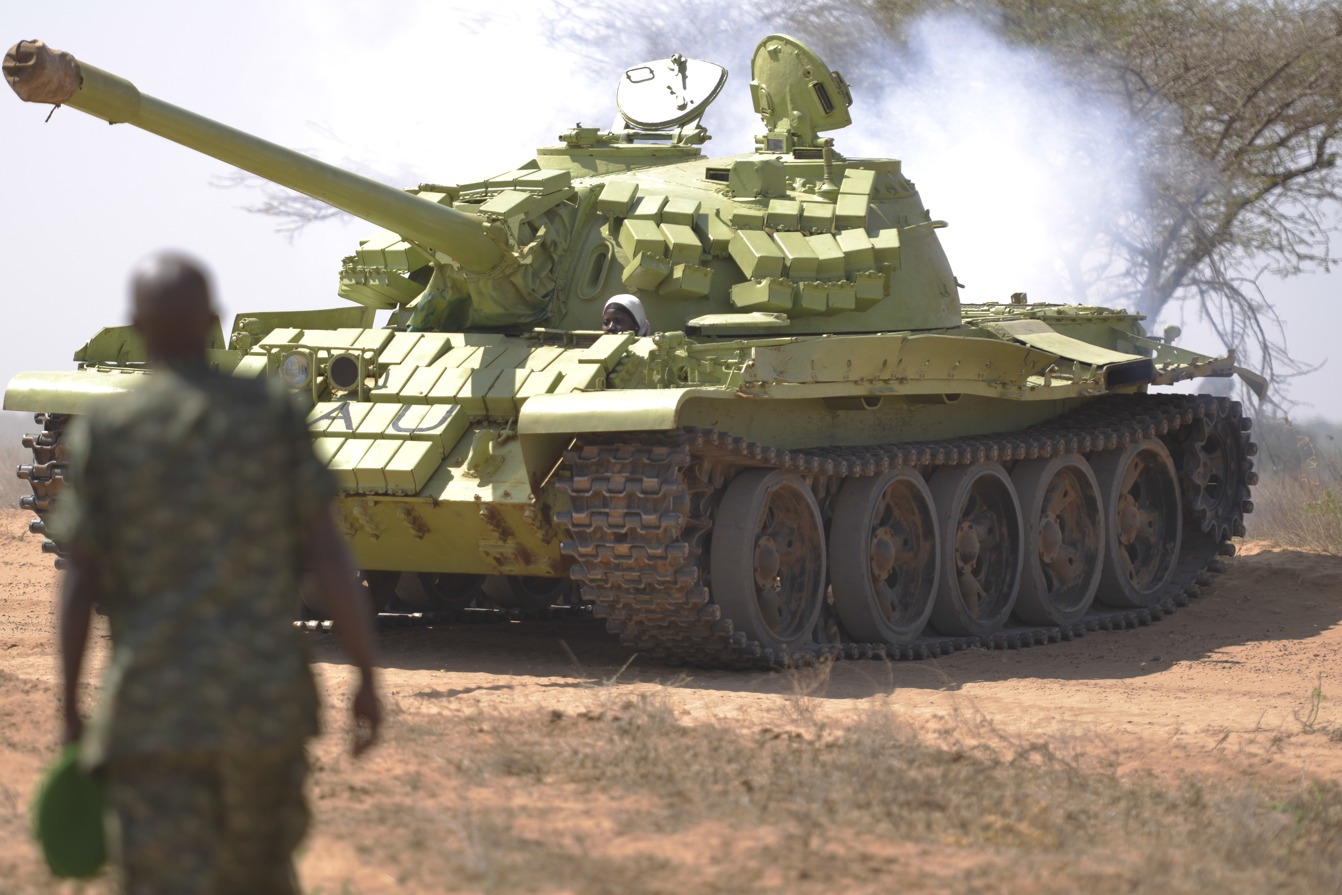 Tank driver, Lance Corporal Mudondo Zabina of the Uganda Peoples Defence Forces, manoeuvres her tank under the watch of her commanding tank officer, Lieutenant colonel Fred Kakaire. Zabina was a tank driver in Gulu befoe she was deployed to Somalia. AU/UN IST PHOTO / David Mutua